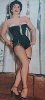 Nené Cao- actriz y vedette argentina